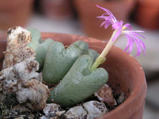 Personnal collection